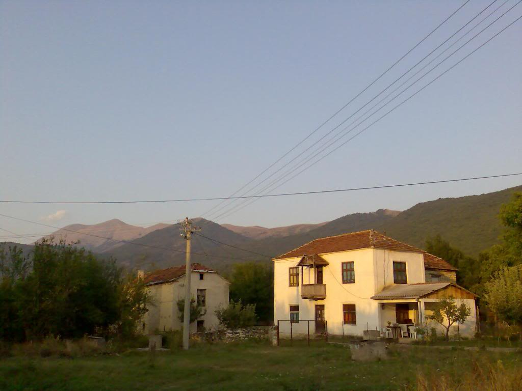 Village of Lokvica, Poreche region, Republic Macedonia